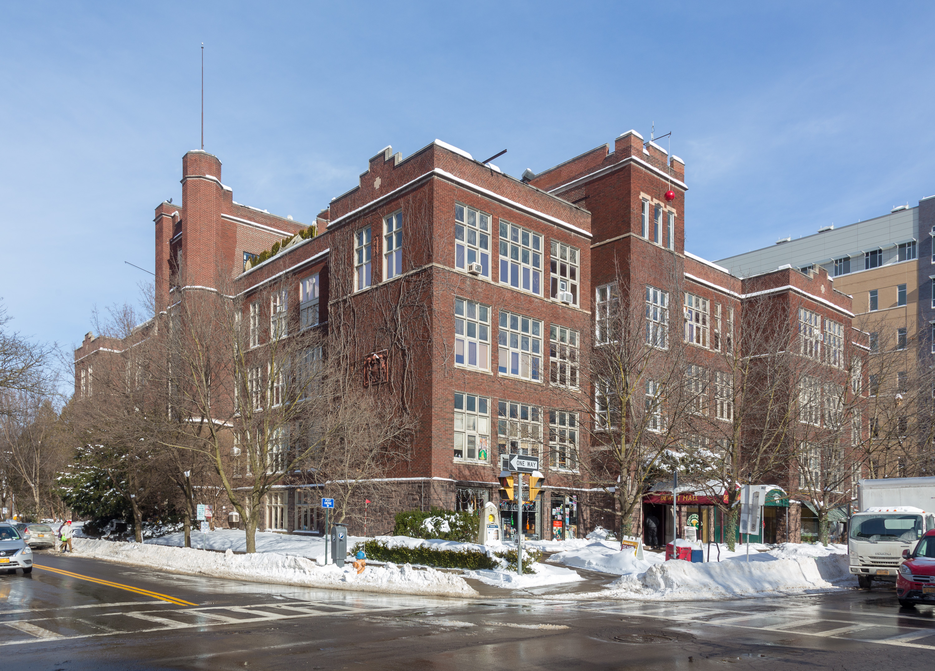 DeWitt Mall, Ithaca, New York. Formerly the DeWitt Junior High School. Built 1912 or 1915, William Henry Miller. A contributing property to the De Witt Park Historic District.